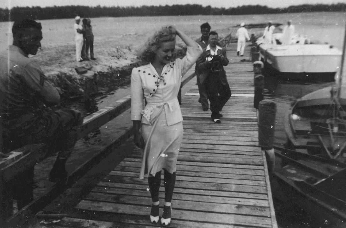 Betty Grable visits the Marines at New River, North Carolina. From the Edwin Kochmanski Collection (COLL/5467) at the Marine Corps Archives and Special Collections OFFICIAL USMC PHOTOGRAPH